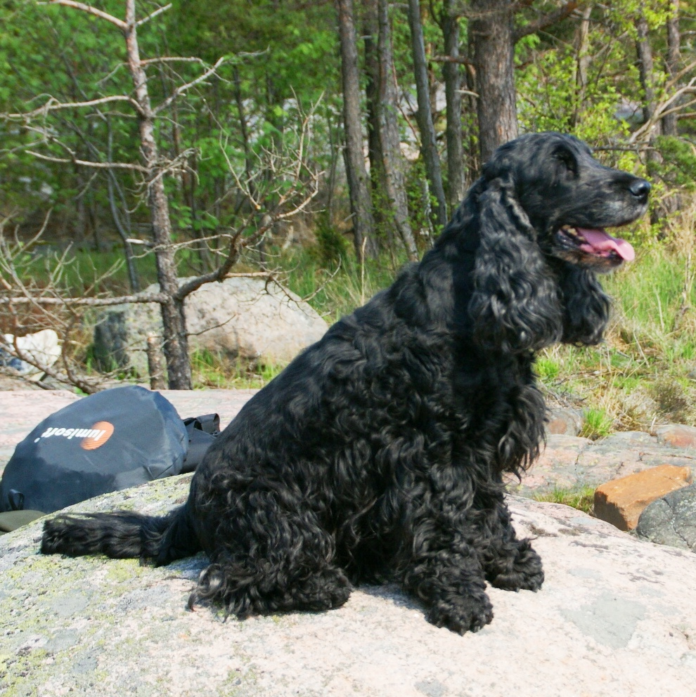 Black English Cocker Spaniel.